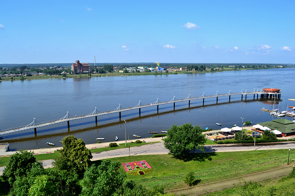 The pier in Płock, Poland.